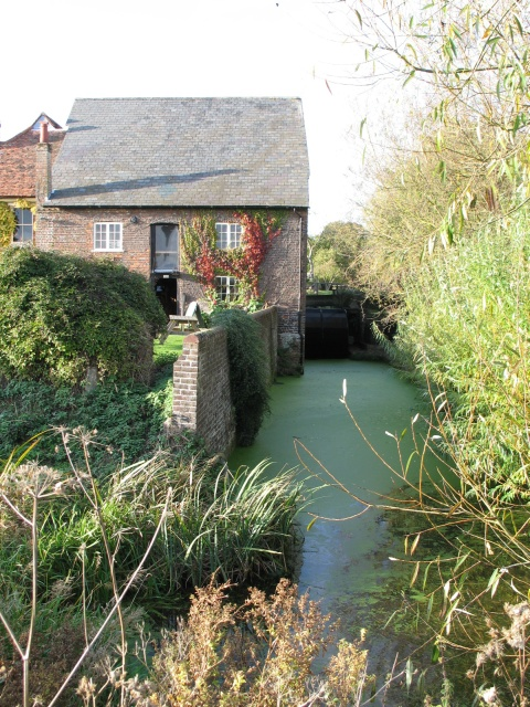 Mill Race, Redbournbury Mill Redbournbury Mill, a water-driven flour mill, lies on the River Ver between St Albans and Redbourn in Hertfordshire. Following extensive restoration the mill is again working and producing organic flour that is sold at the mill and in local shops and markets. The Mill is open to visitors (at the time of writing) on Sunday afternoons.